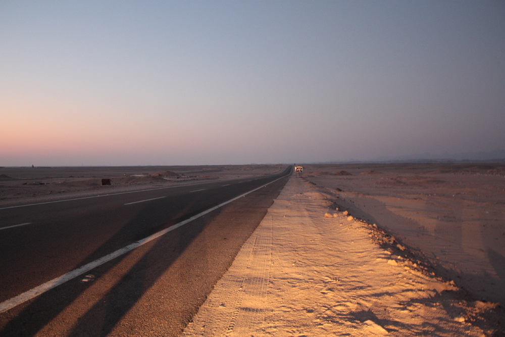 The Eastern Desert along the Road Hurgada-Safaga, Egypt